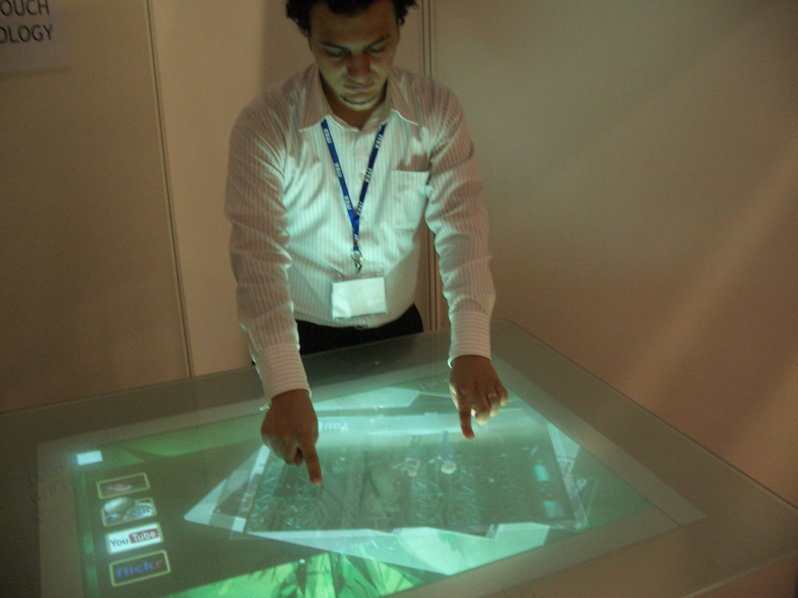 Smart Surface Multi touch table